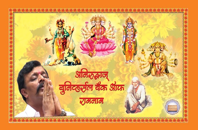 Hemandpant's house in Mumbai